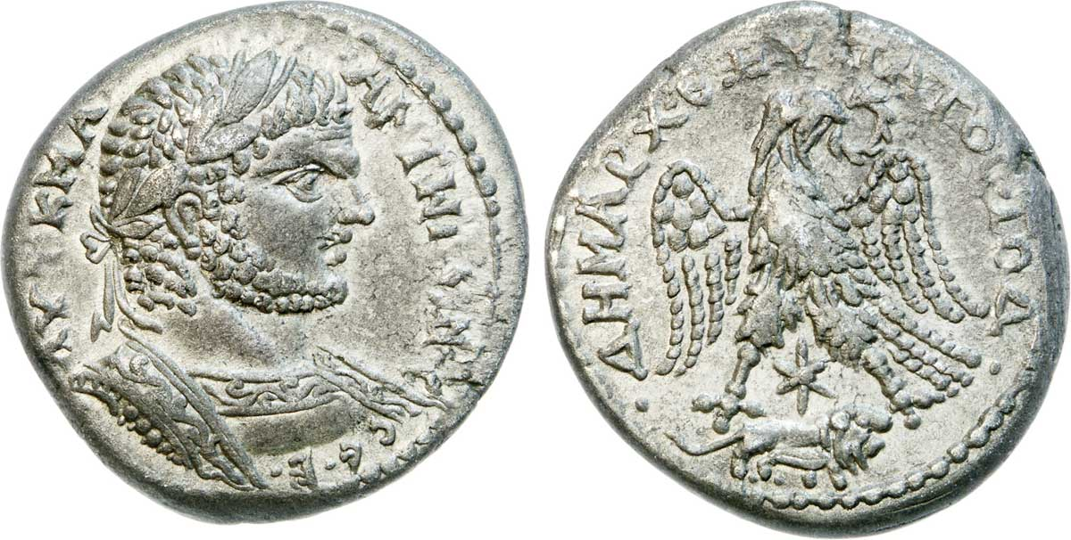 Monnaie frappée en la cité d'Héliopolis